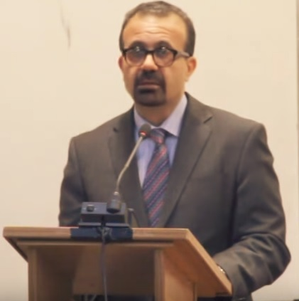 Joseph Massad, Professor of Modern Arab Politics and Intellectual History at Columbia University speaks at the University of Chile on "Semitism and the Abrahamic: Edward Said and Jacques Derrida".